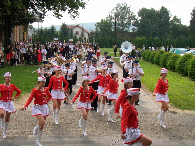 Erntedankfest 2012 in der Gemeinde Sanok, Besko am 3. September